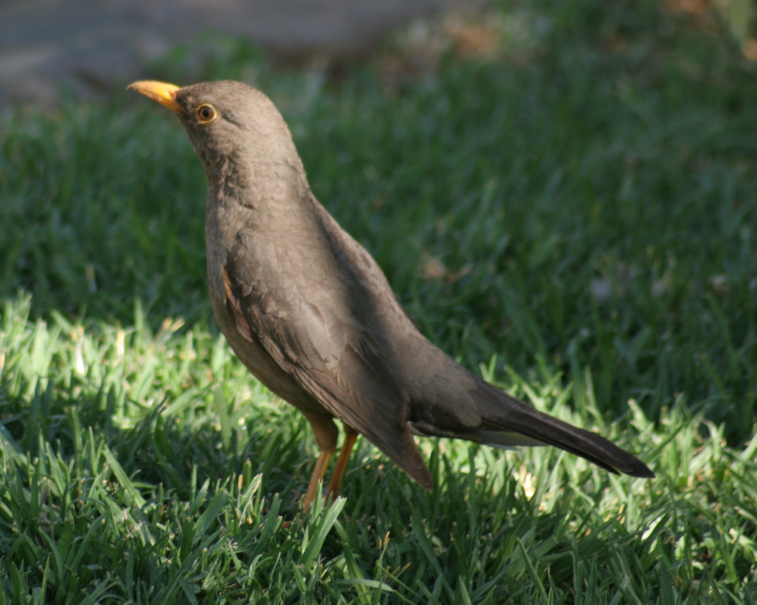 Karoo Thrush (Turdus smithii). An early morning visitor to the photographer's garden in South Africa.